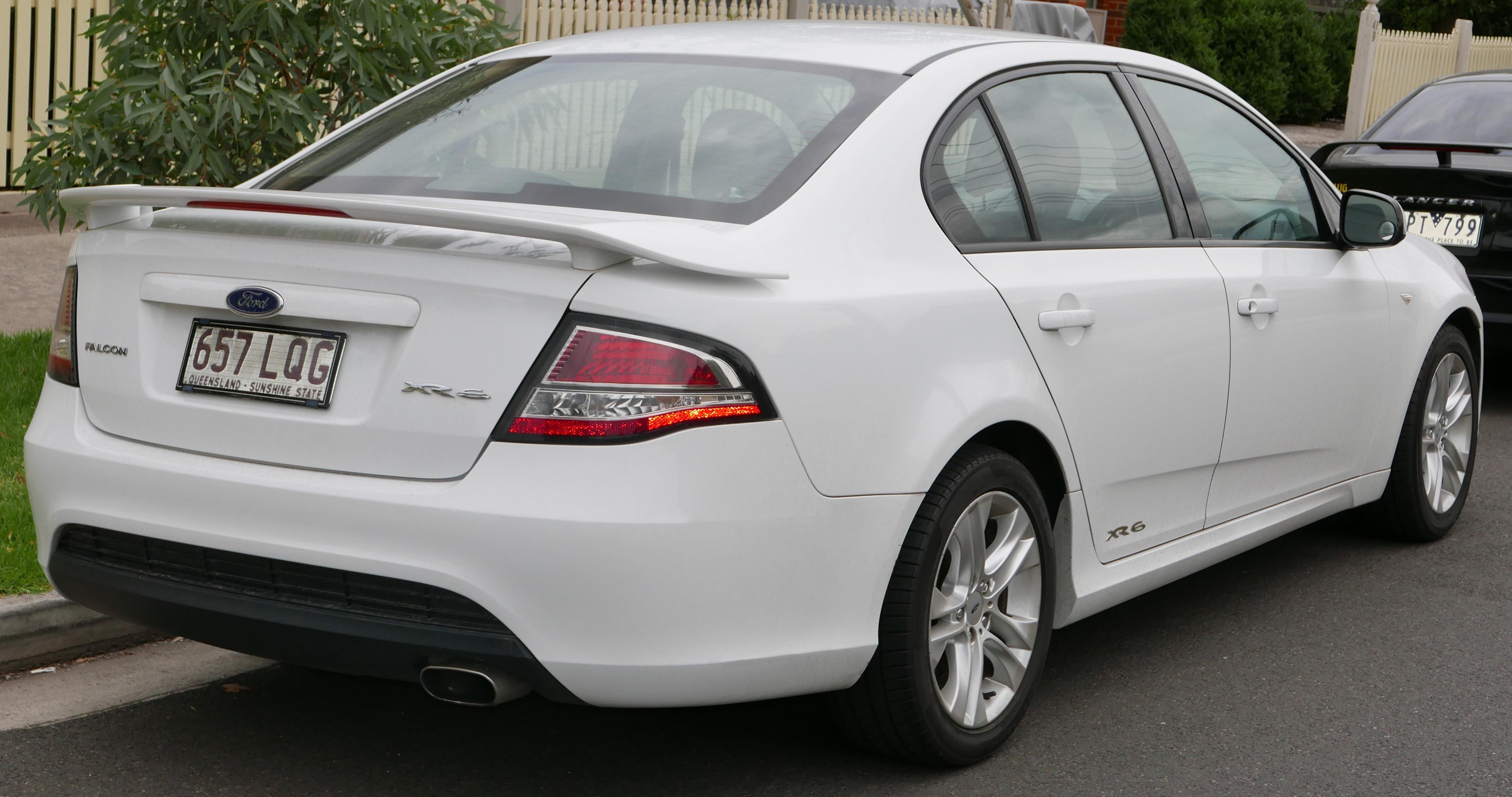 2009 Ford Falcon (FG) XR6 sedan. Photographed in Oak Park, Victoria, Australia. Vehicle registration enquiry resultsJurisdictionQueenslandRegistration657LQGChassis code6FPAAAJGSW9M38224 Year of manufacture2009